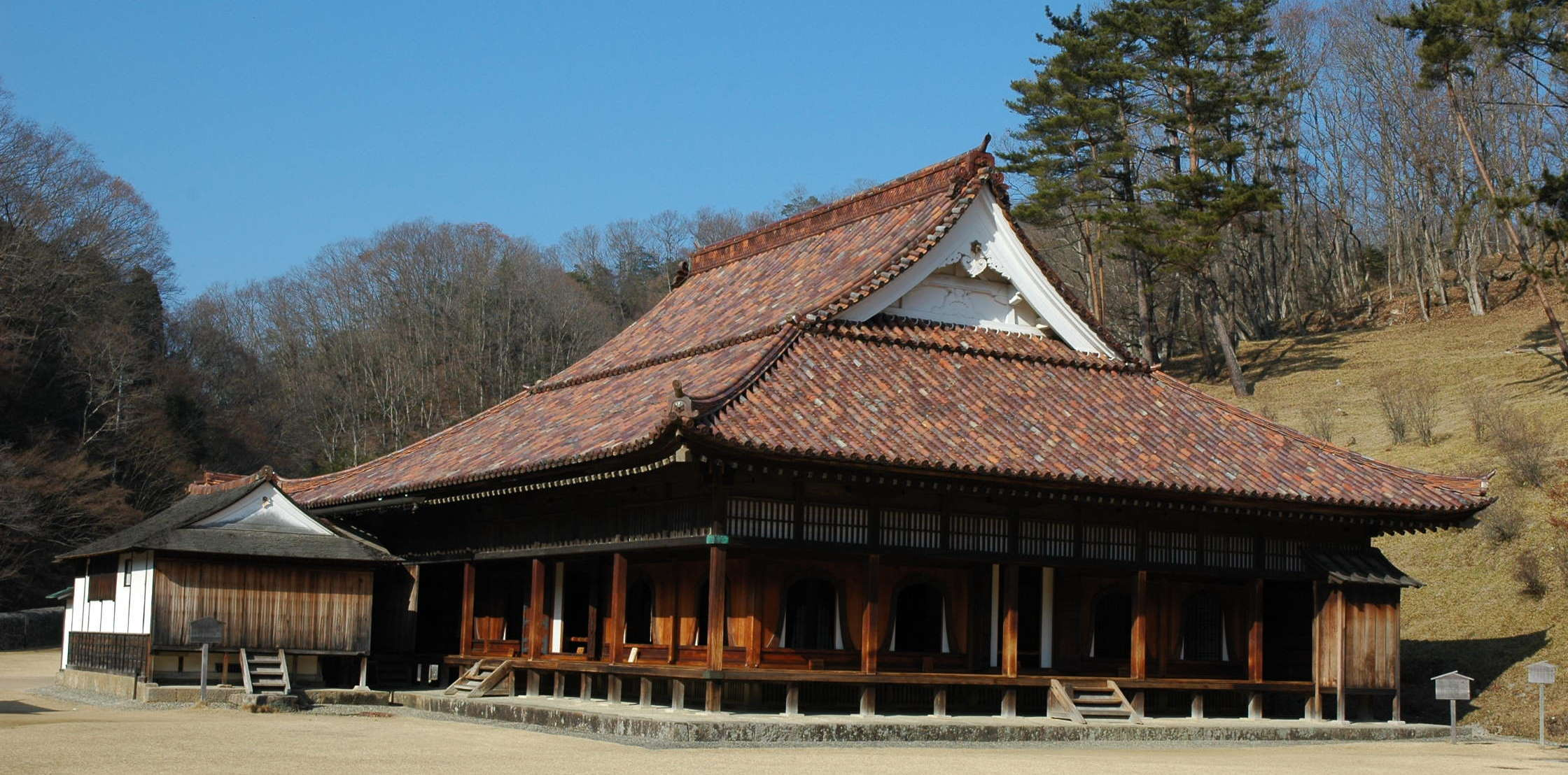 photo of Shizutani school the hall(Japan's national treasure) and shōsai(the feudal load's rest house,Japan's national important cultural property)